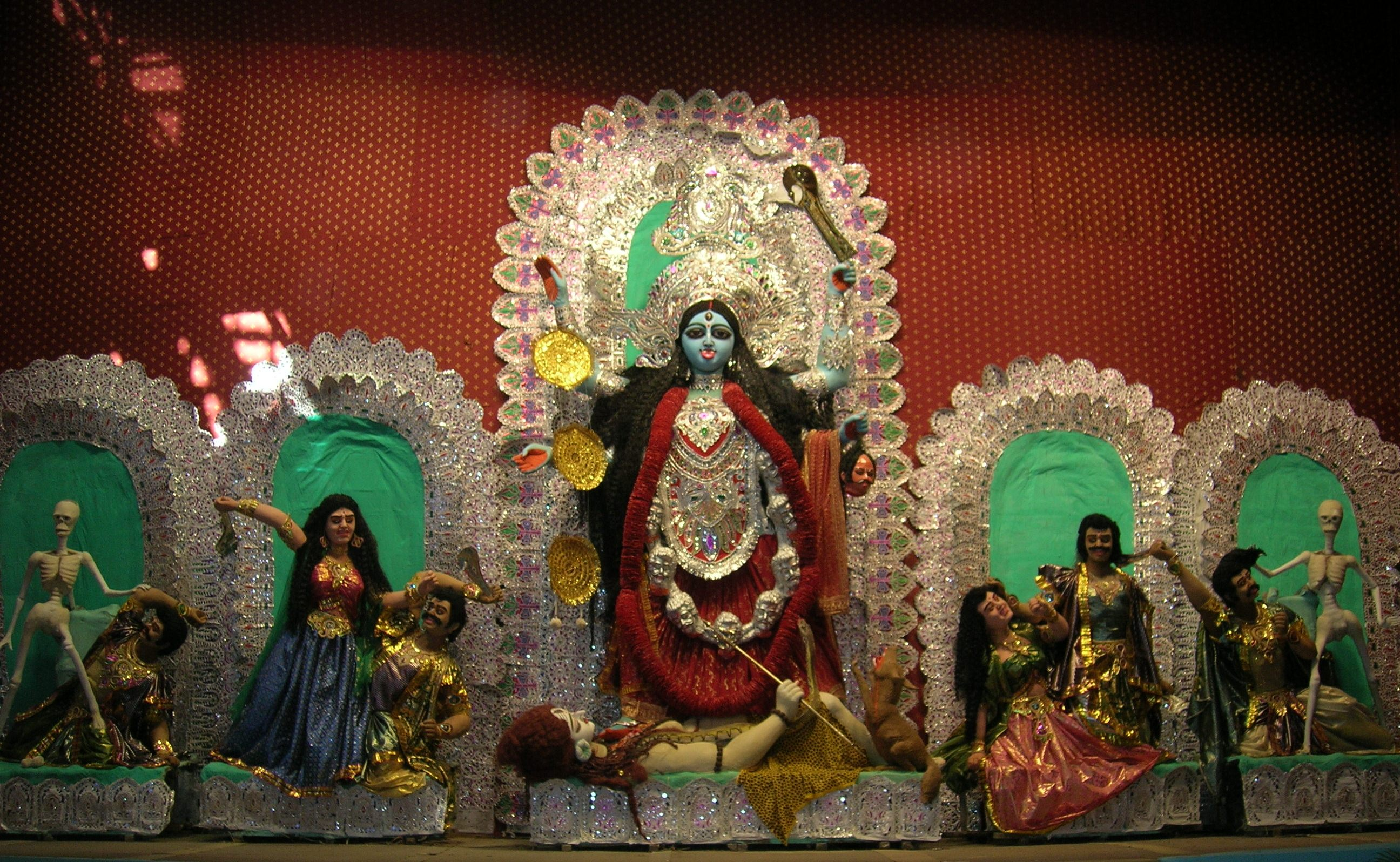 Shyama with Dakini, Yogini, Bhut and Pret, at a Sarbojanin Kali Puja pandal at College Square, Kolkata, 2010.